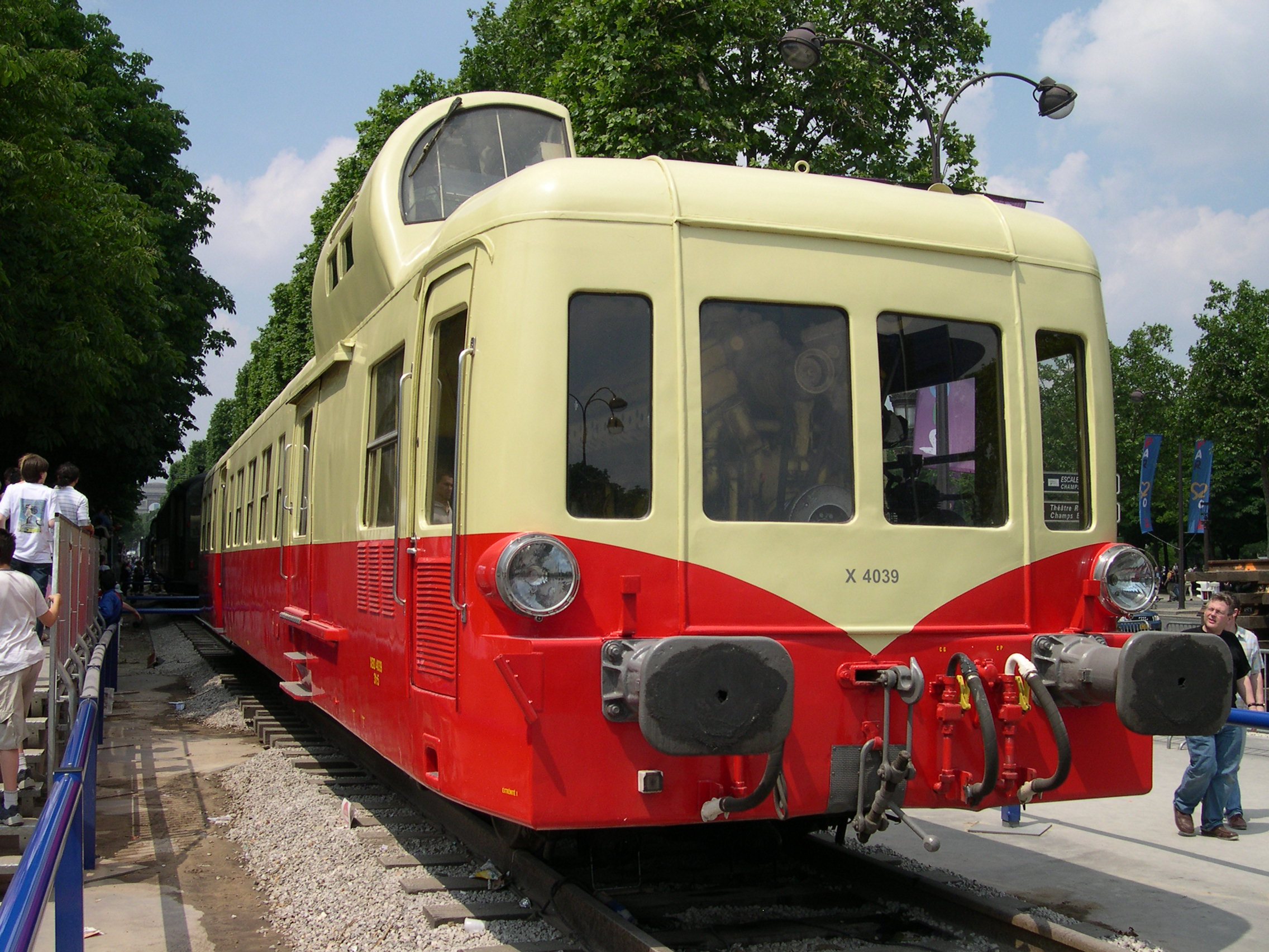 An SNCF X3800 railcar exposed on the Champs Élysées, in Paris, in the course of Expo Train capitale 2003.